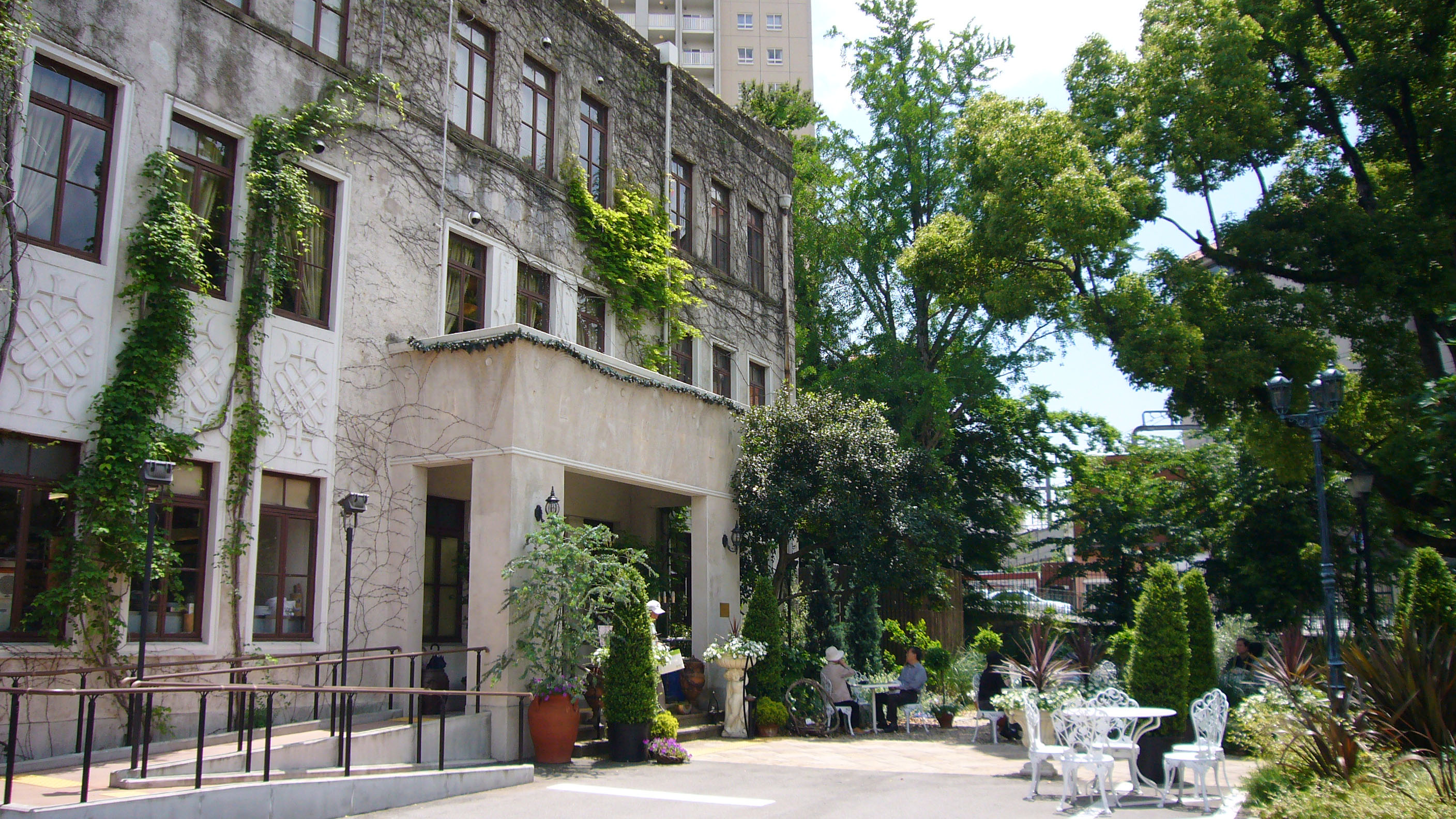 Takarazuka Garden Fields in Takarazuka, Japan